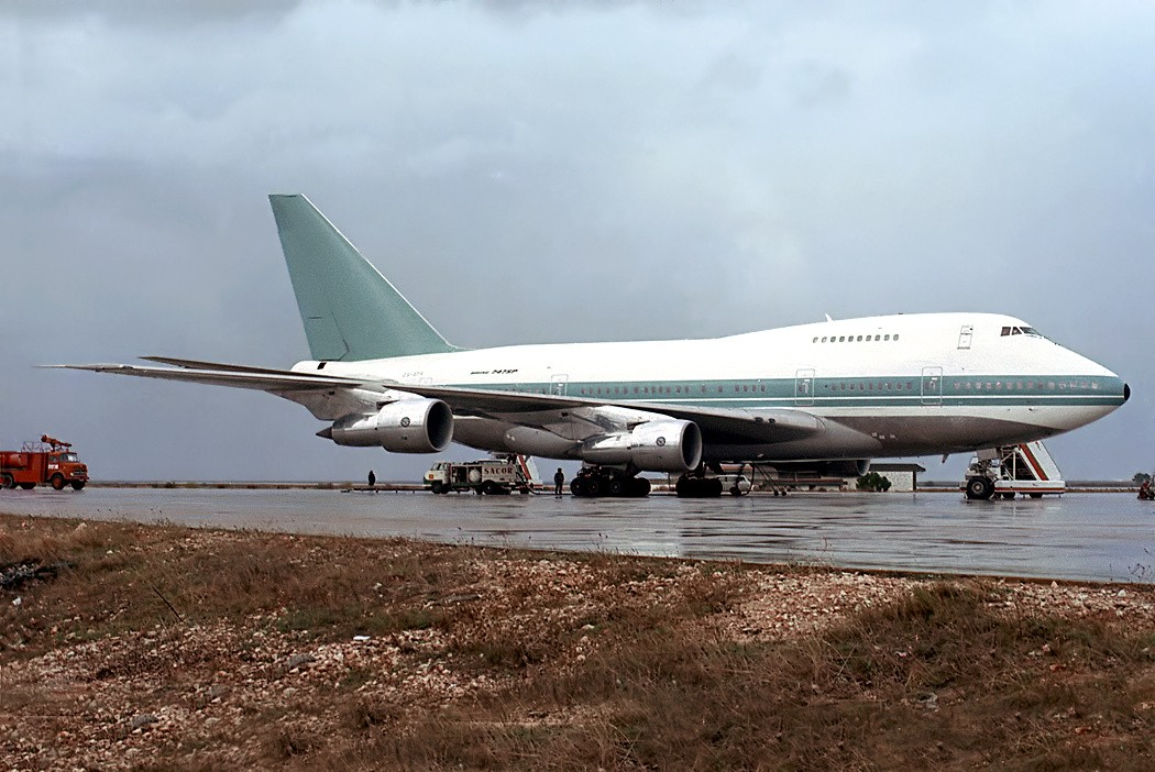 Boeing 747SP-44 Luxavia (ZS-SPA) at Faro International Airport